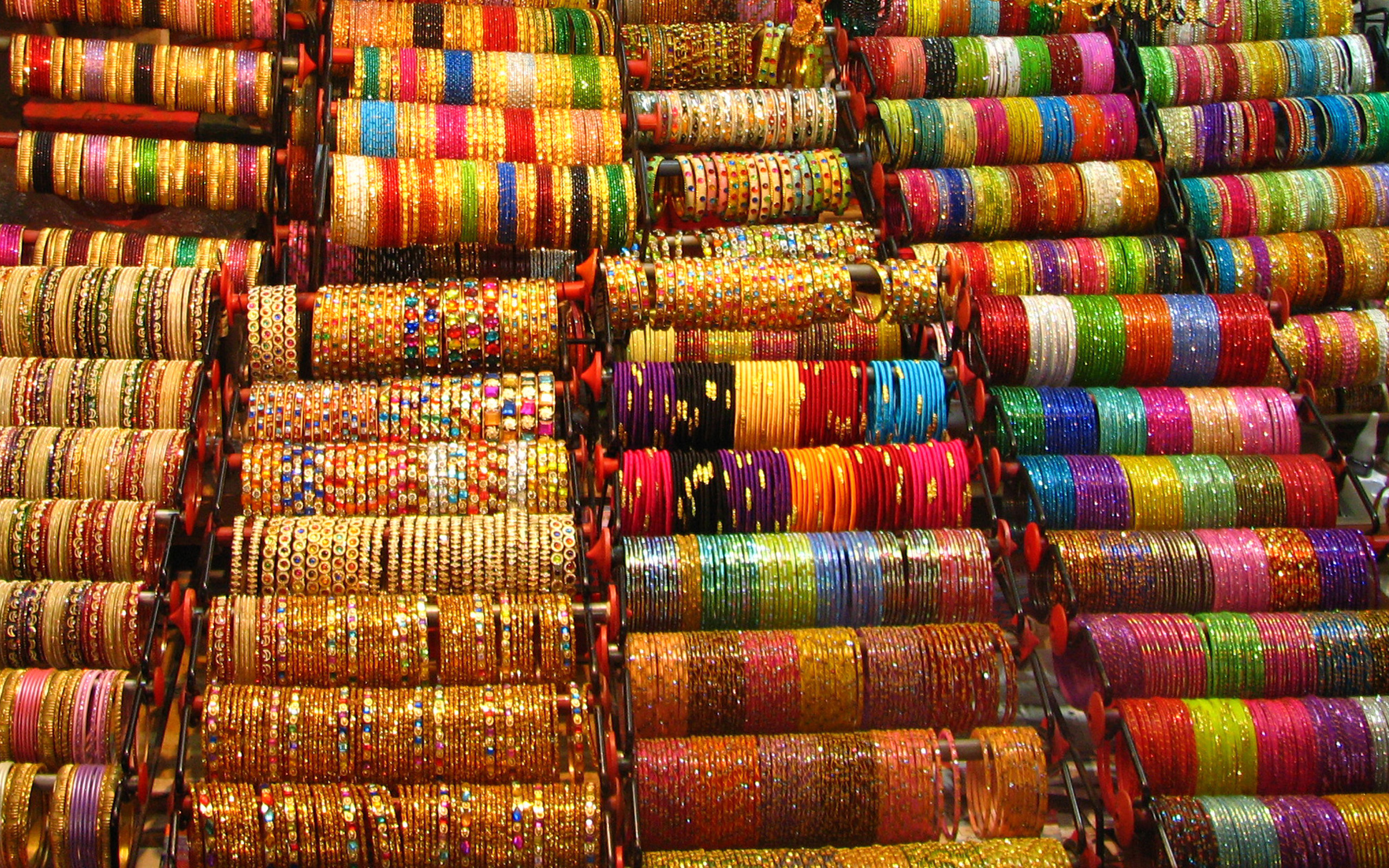 bangles